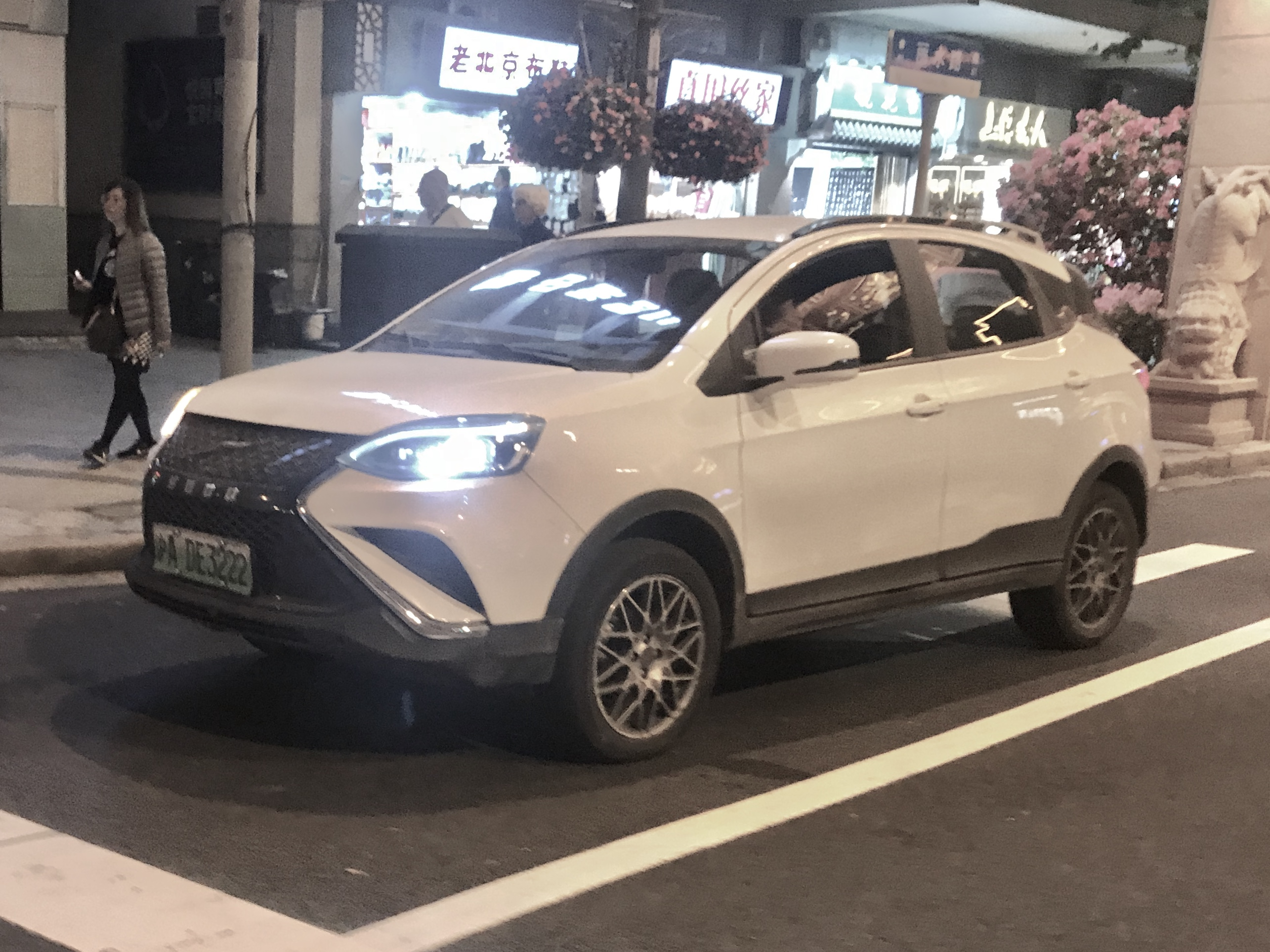 Yudo Pi 3 (π3)